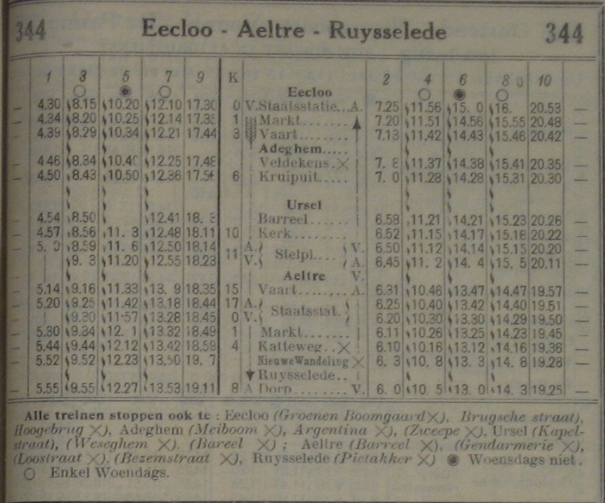 Timetable picture shows 4 local vicinal trainservices in the East Flandres province, in the summer off 1933: 338 Brugge Zomergem 342 Brugge Diksmuide 344 Eeklo Ruiselede 345 Eeklo Watervliet (The placenames in the pictures are written in the old way) Run bij de NMVB (Nationale Maatschappij van Buurtspoorwegen) on metergauge.